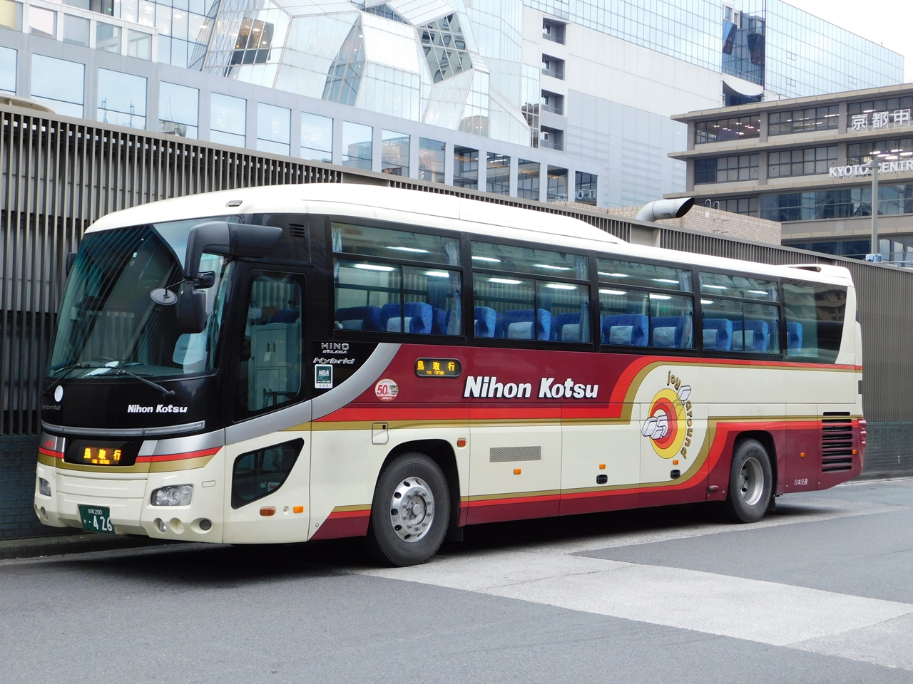 Nihon kotsu (Tottori) Hino S'elega hybrid (BJG-RU1ASAR)on highwaybus "Tottori-Kyoto"